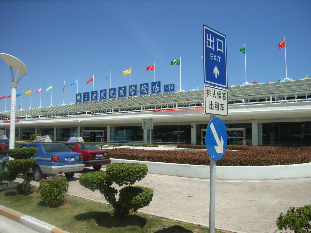 Sanya Phoenix International Airport terminal — on Hainan Island. Located in Sanya, Hainan Province, Southeast China.